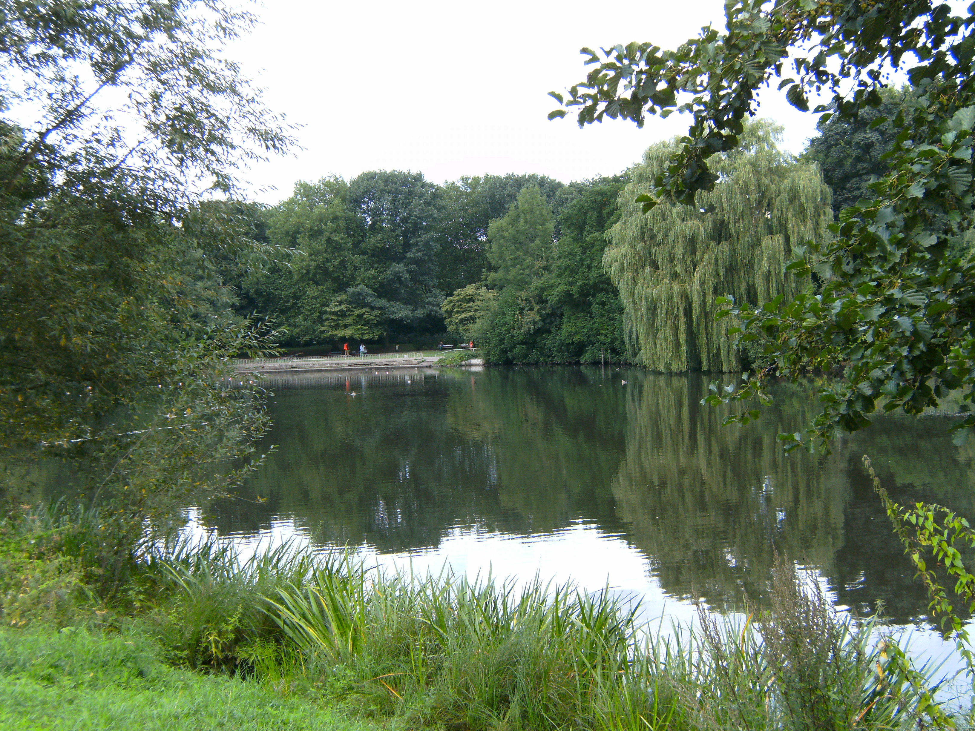 Mühlenteich, a pond in Hamburg-Wandsbek, seen from the east.